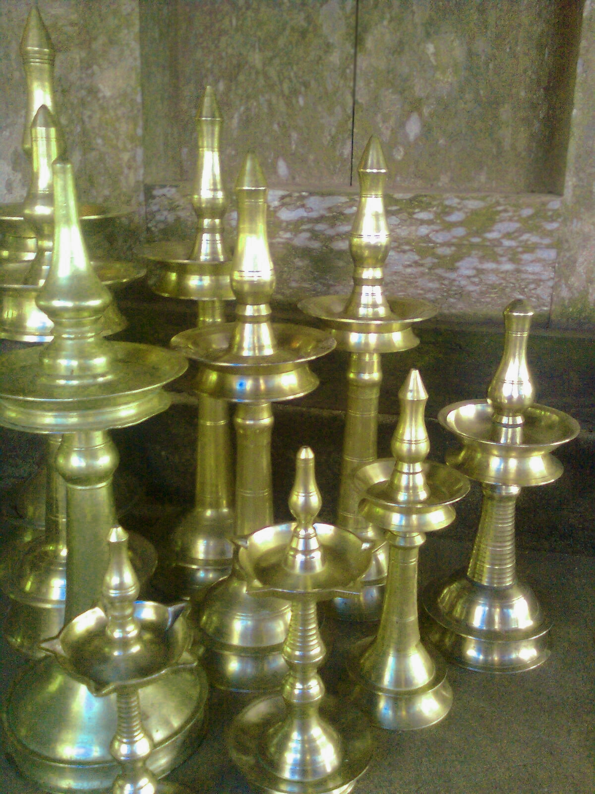 Nilavilakku is a lighted bell metal traditional lamp used commonly in Kerala, South India.